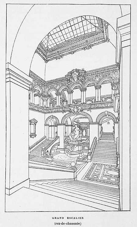 View of the Grand Staircase of the Palais de Rumine in Lausanne, drawn by Gaspard André in 1892